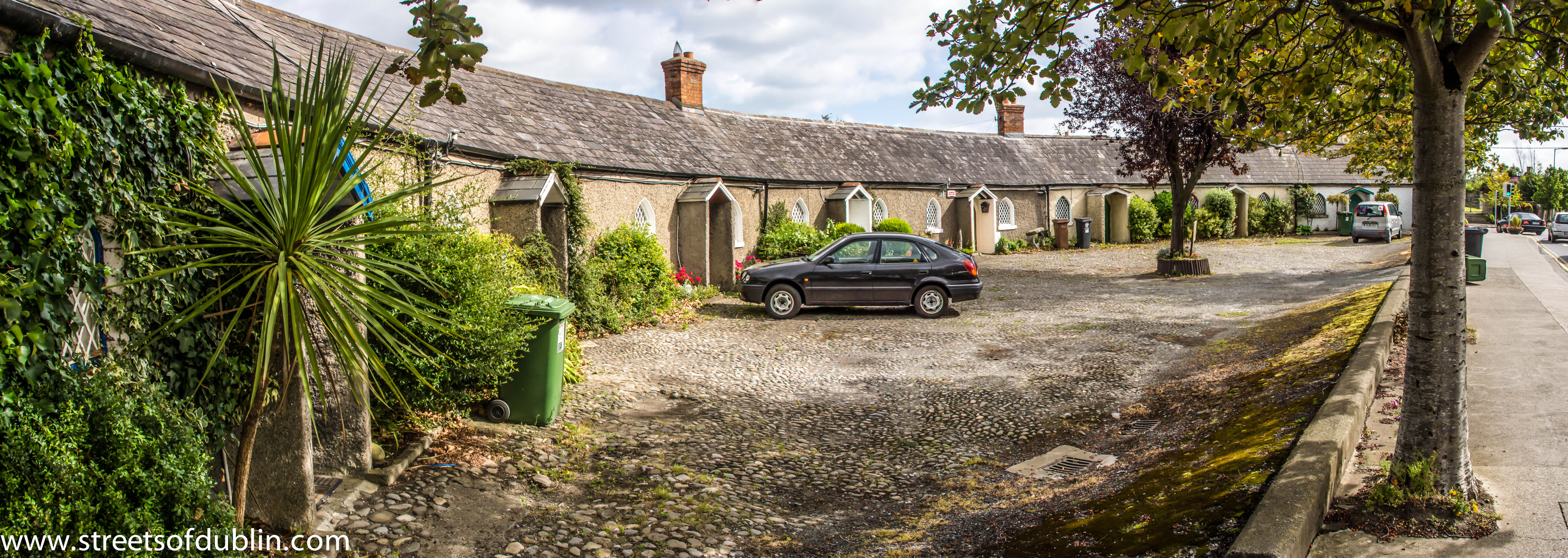 Do you know where the ‘Doh-Ray-Mee’ cottages in Raheny are? They are the row of cottages close to the village centre, down the hill where Raheny DART station is today. They are called ‘Doh-Ray-Mee’ cottages because there are eight cottages all together, just as there are eight notes on the musical scale. Their other name is ‘crescent cottages’ because they are built in a semi-circle called a crescent. The crescent cottages are among the oldest buildings in Raheny. They were built around 1790 by Samuel Dick, the Governor of the Bank of Ireland and a wealthy businessman. He lived on a large area of land in Raheny and built these eight houses for his workmen. Samuel Dick also built a school on Main Street beside the old graveyard of St Assam’s. It became known as ‘Dick’s Charity School’ because it was intended for ‘poor children of all persuasions’. This building, the oldest in Raheny, still stands today but is now a restaurant. When Samuel Dick died in 1802, his will stated that the rents the tenants paid for the crescent cottages should be used for the salary of the schoolmaster of his Charity School. Over time the cottages fell into disrepair and by 1879 were in such a poor state that Lord Ardilaun, the owner of St Anne’s estate, paid £375 to improve them all. In 1947 a terrible tragedy happened in one of the cottages: a gas leak killed Kathleen McKee, aged 11, and Hector McKee, aged 10. Luckily, the other six members of their family survived. The cottage closest to the Station House pub was once the village post office. The cottages have remained almost unchanged since they were built in the eighteenth century and people still live in them today.